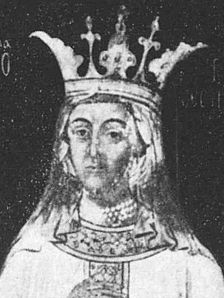 Princess Evdochia of Kiev the first wife of the Ştefan cel Mare , ruller of Moldova, 1465. The original is a fresco painting from the Probota Monastery, where supposedly was the tomb of Evdochia